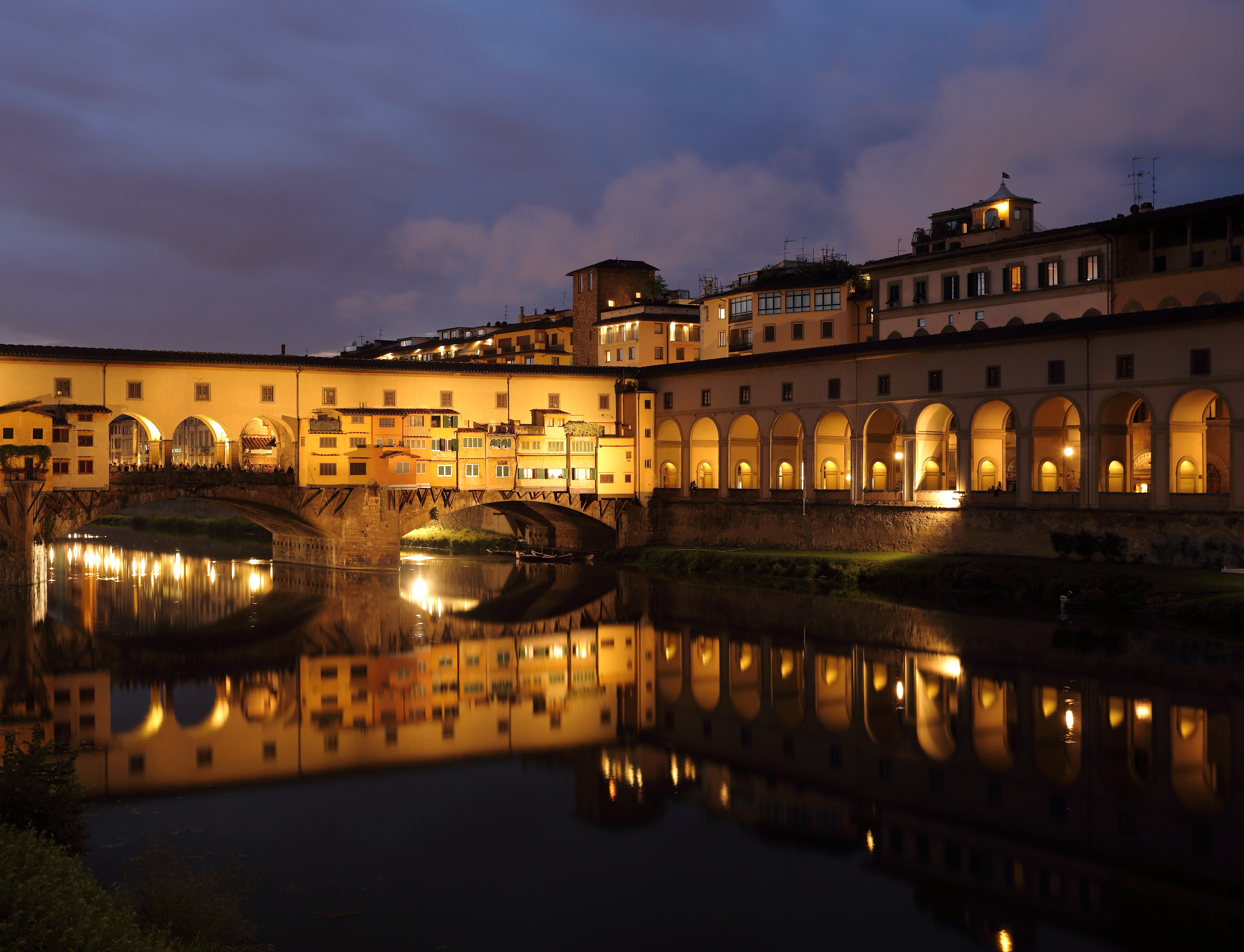 Florence: Ponte Vecchio at dusk, part of UNESCO World Heritage Site Ref. Number 174